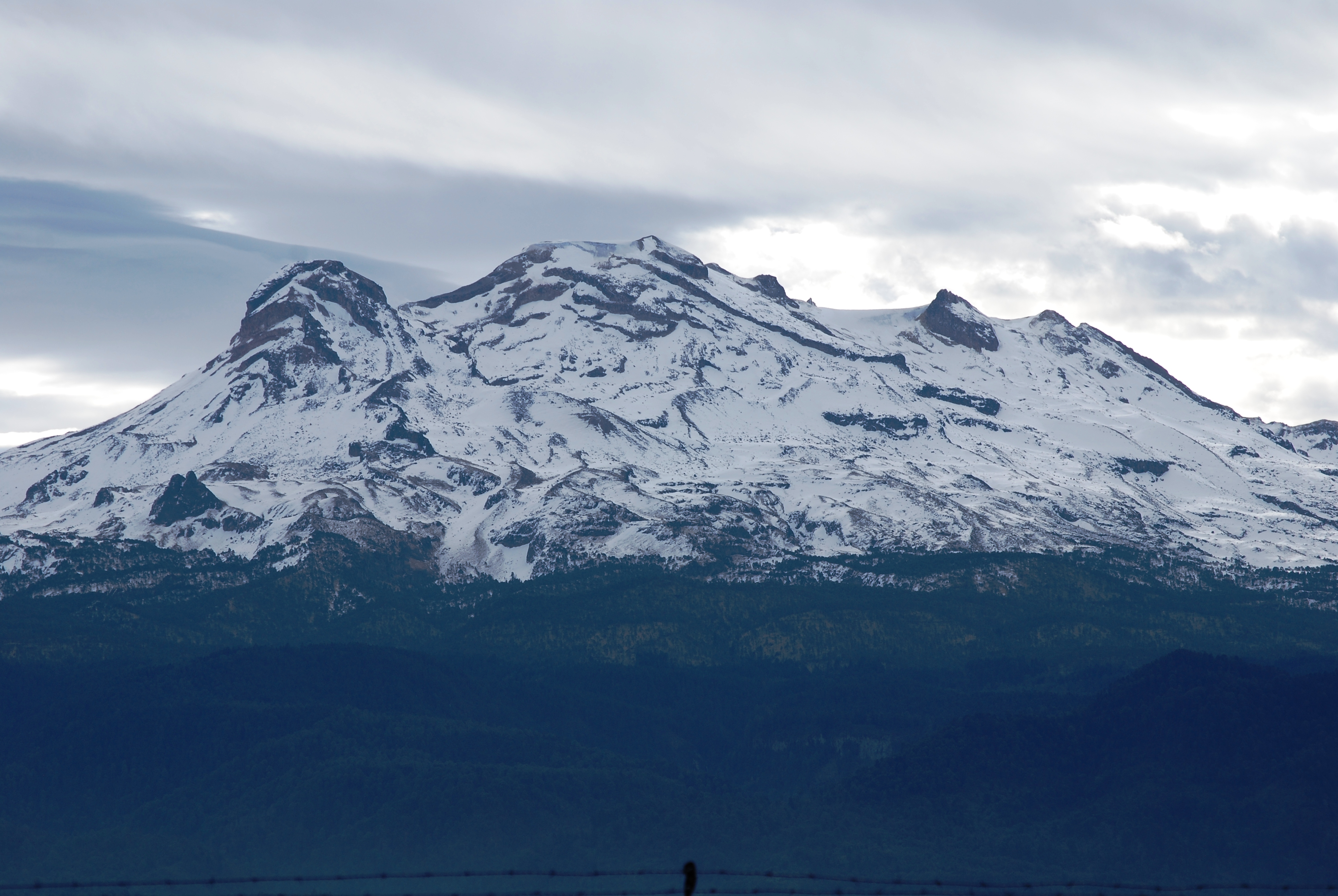 View of Iztaccihuatl from Chalco, Mexico State in the morning